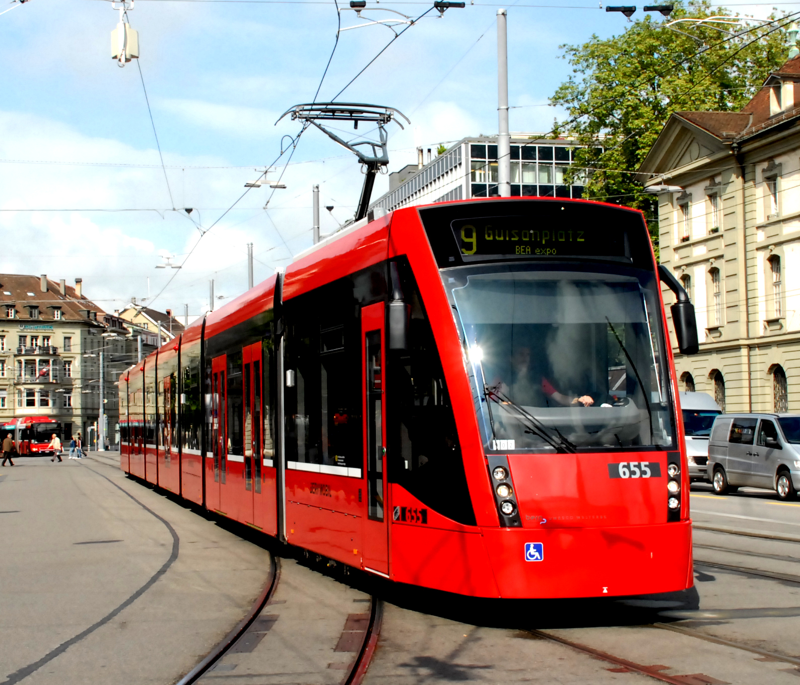 Siemens Combino MkII tram (#655) in Bern, Switzerland. Bernmobil operator.